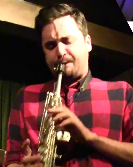 Still from Steven Lugerner performing with Killer Bob